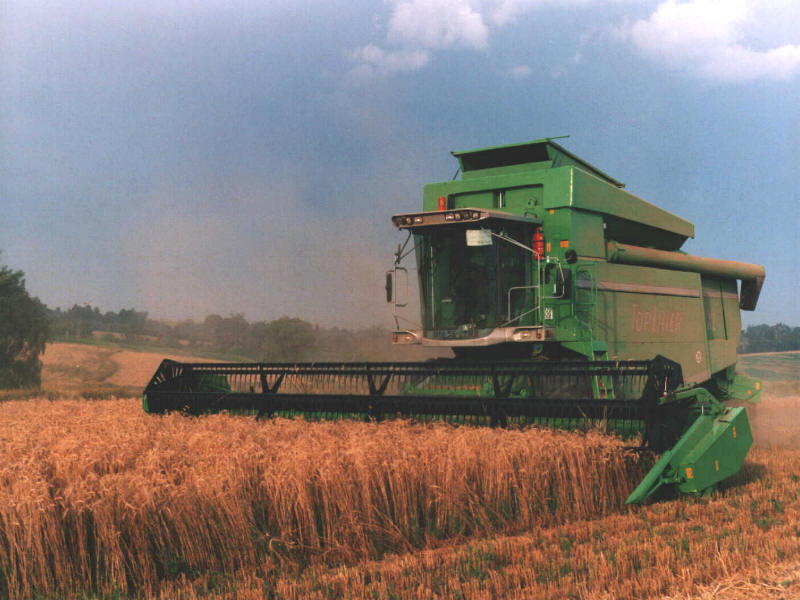 Deutz-Fahr TopLiner 8XL combine harvester in southafrican hardwheat (Triticum durum)